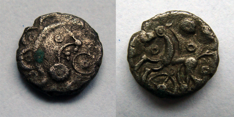 Celtic British Silver coin of the Dobunni tribe. Obverse face right, boss on chin, wheel in front. Reverse horse left, wheel below. 13mm diameter.